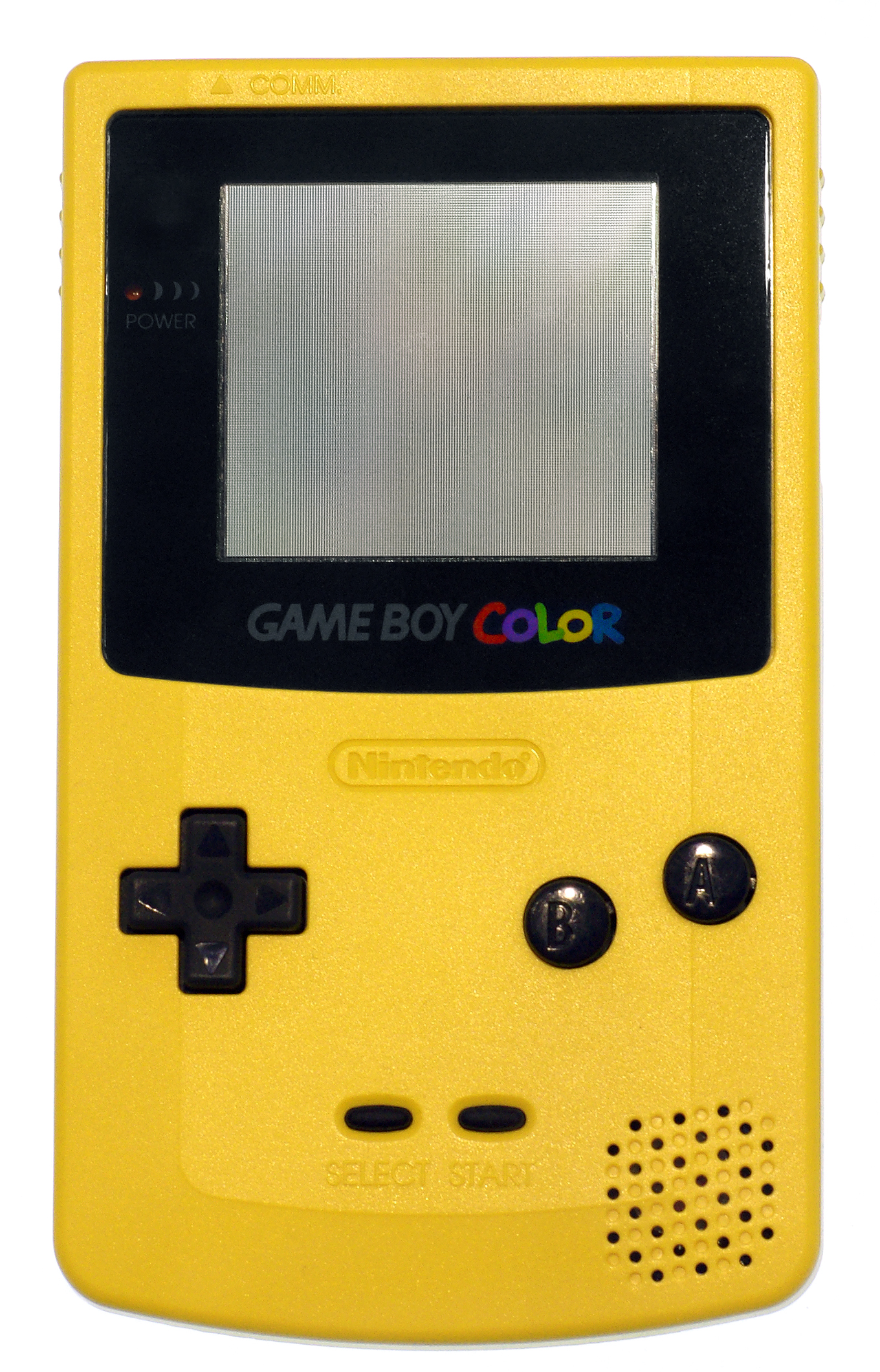 A yellow Game Boy Color by Nintendo. Picture taken of a unit in a display case at the Nintendo Store in NYC.